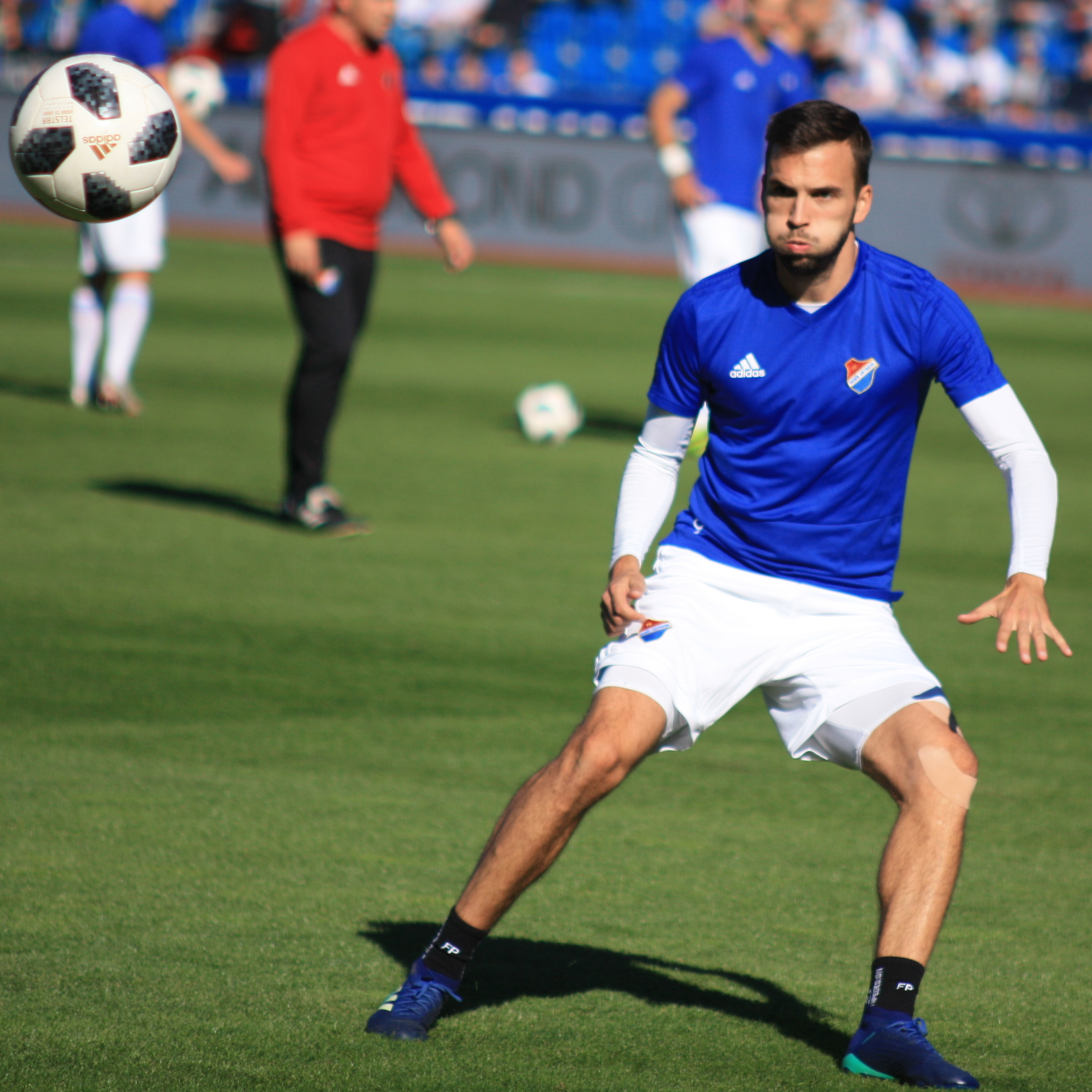 Lukáš Pazdera At Czech First League (Fortuna Liga) match FC Baník Ostrava-SK Slavia Praha played on 30. 9. 2018